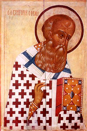 Gregory of Nazianzus (russian icon)